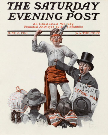 The cover of The Saturday Evening Post published on June 3, 1916 Read more